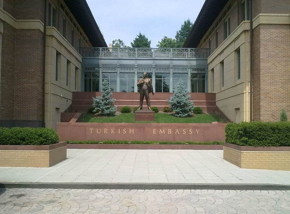 Statue of Atatürk in Turkish Embassy, Washington, D.C.